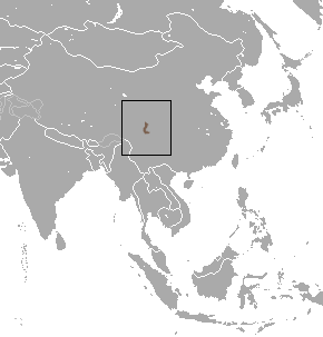 Asiatic Short-tailed Shrew (Blarinella quadraticauda) range